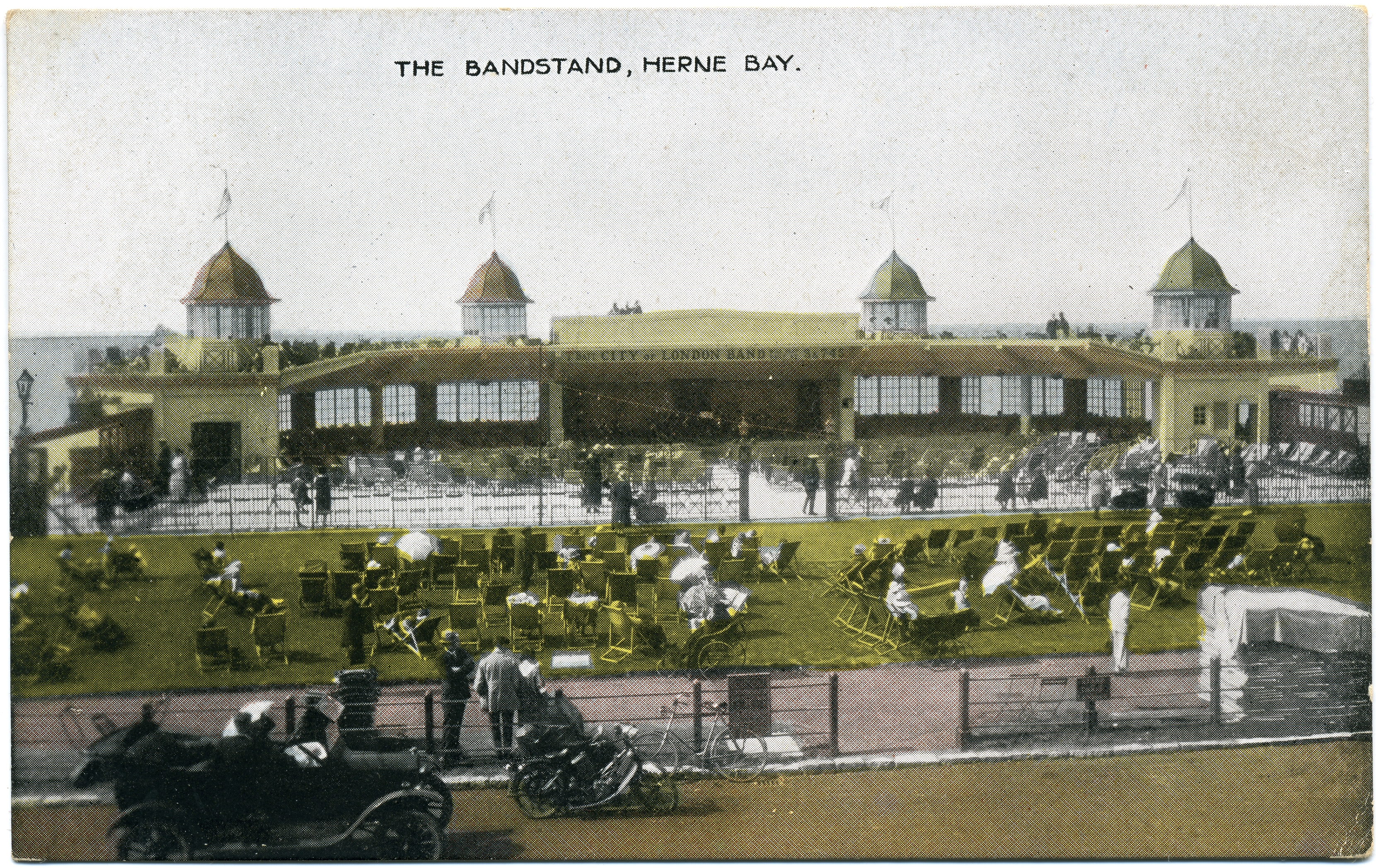 Central Bandstand, Herne Bay, Kent, England, designed by H. Kempton Dyson in 1924 and built of ferro-concrete (reinforced concrete). The City of London Band is playing; their name is written above the stage. Photograph dates from 1924 because the deckchair area has not yet been formally extended across the lawn in front.